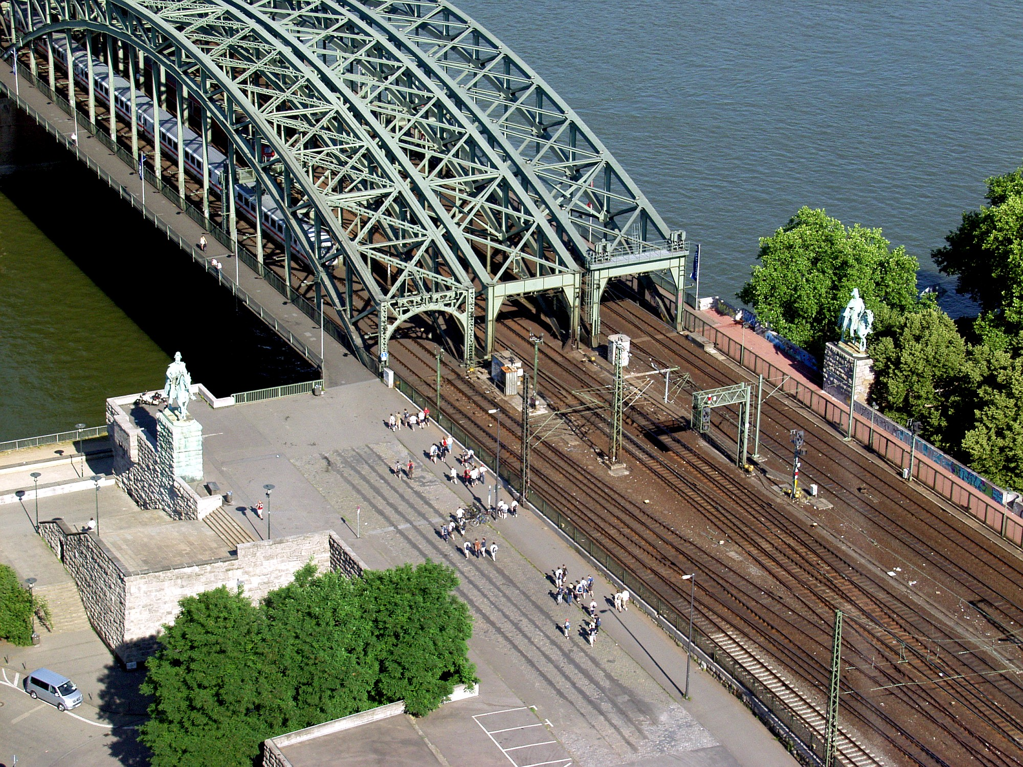 Right riverside of "Hohenzollernbrücke" over the river Rhein at Cologne, Germany